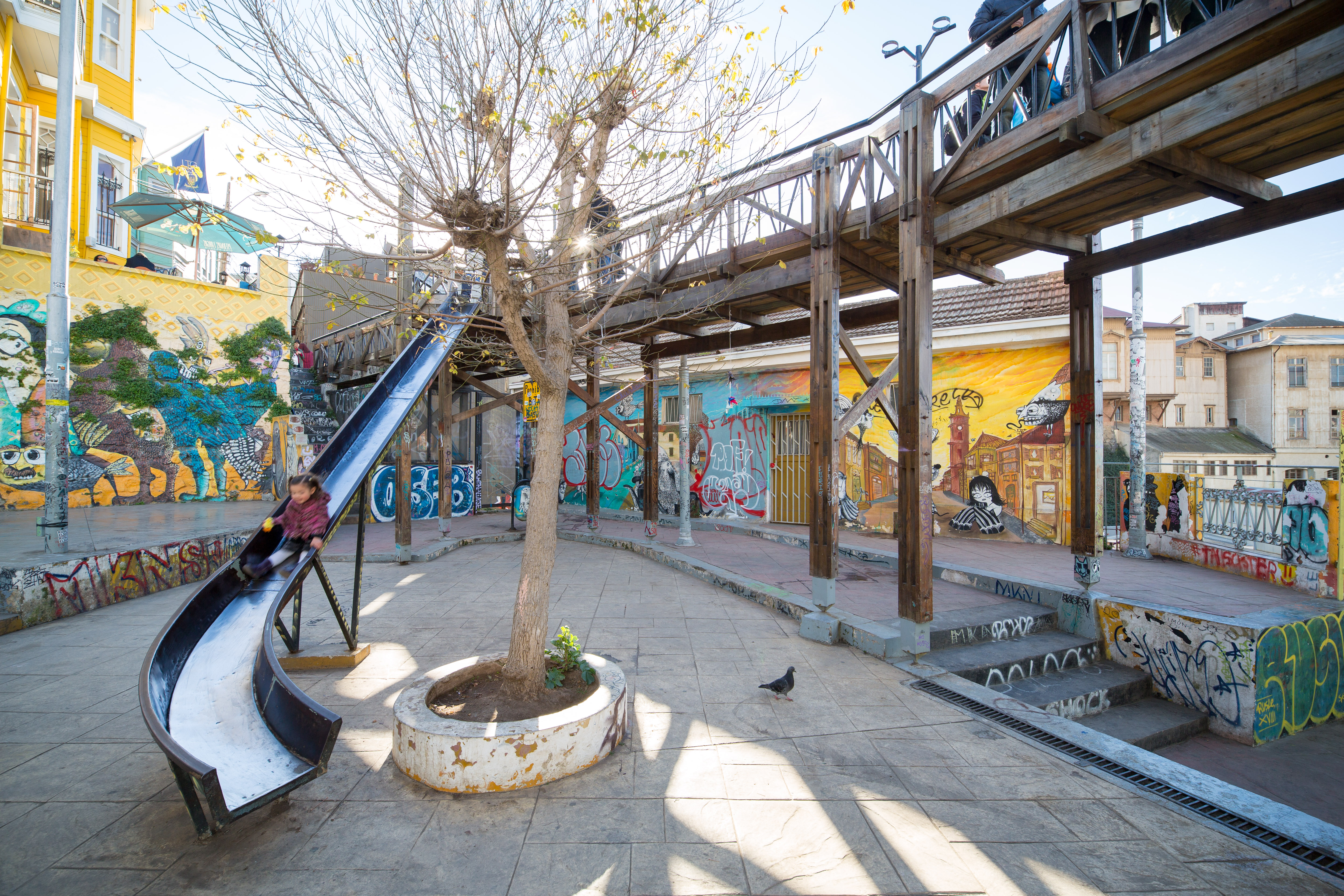 A girl sliding in Valparaiso, Chile with grafiti in the background